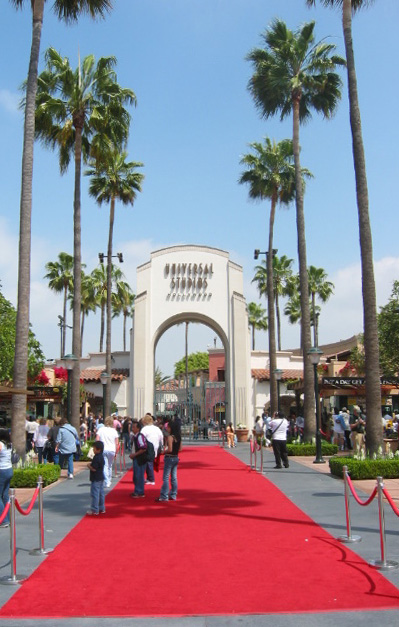 Entrance Universal Studios Hollywood